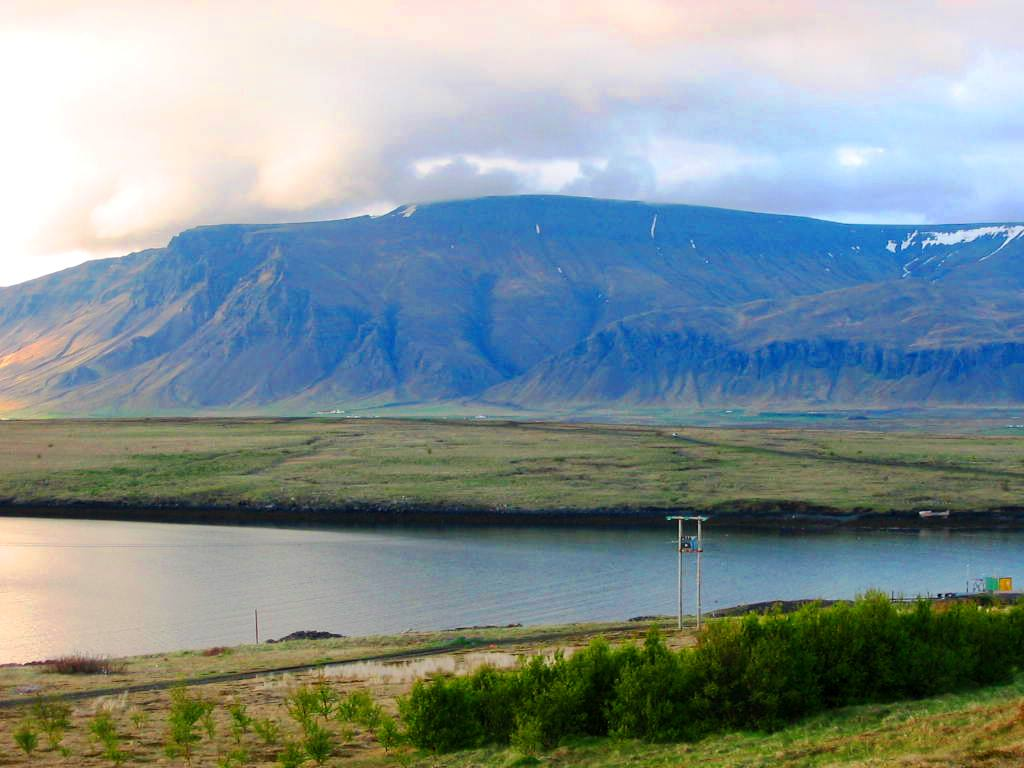 View over the island Geldinganes from Gufunes. Reykjavik, Iceland.